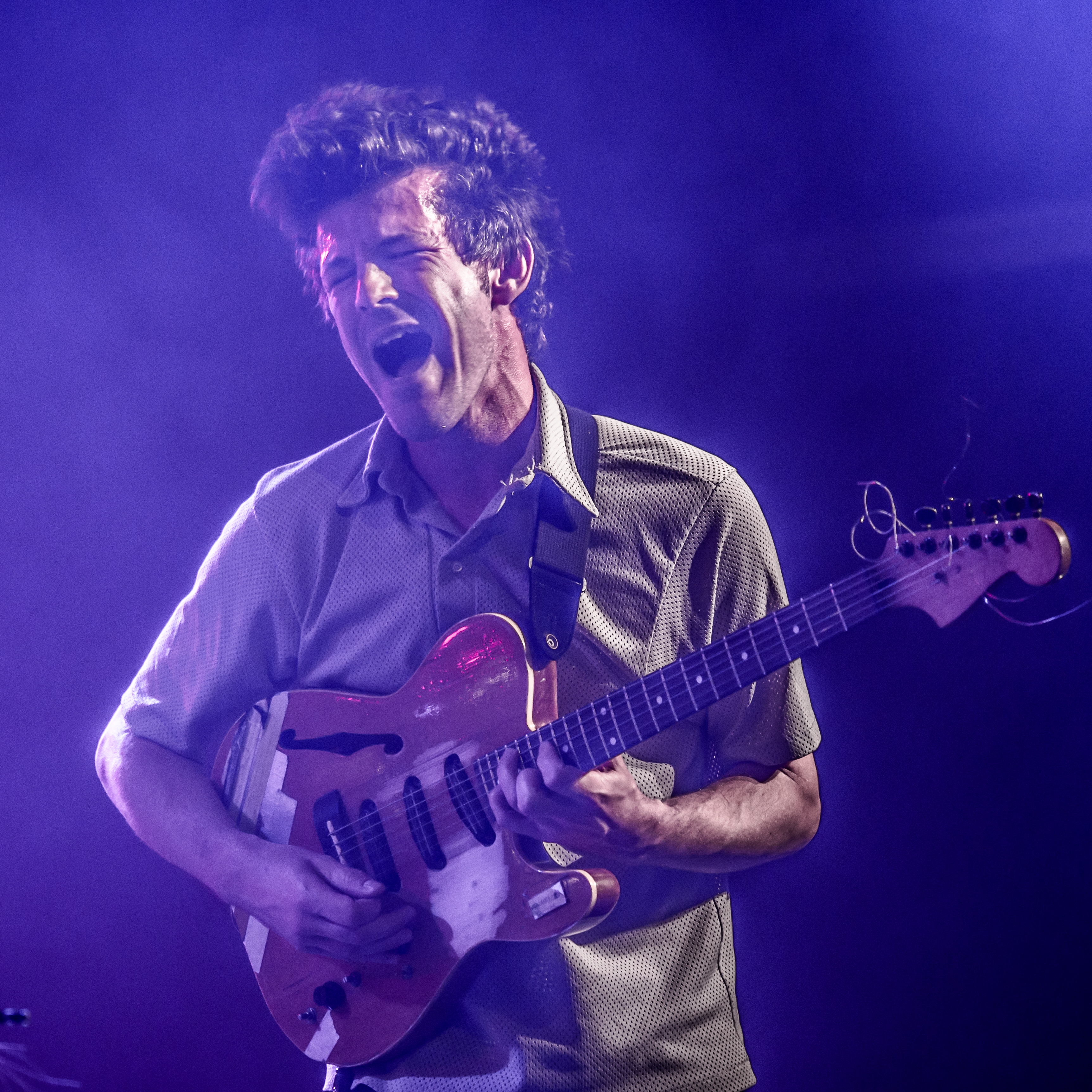 US-american jazz guitarist Brandon Seabrook at the Moers Festival 2015